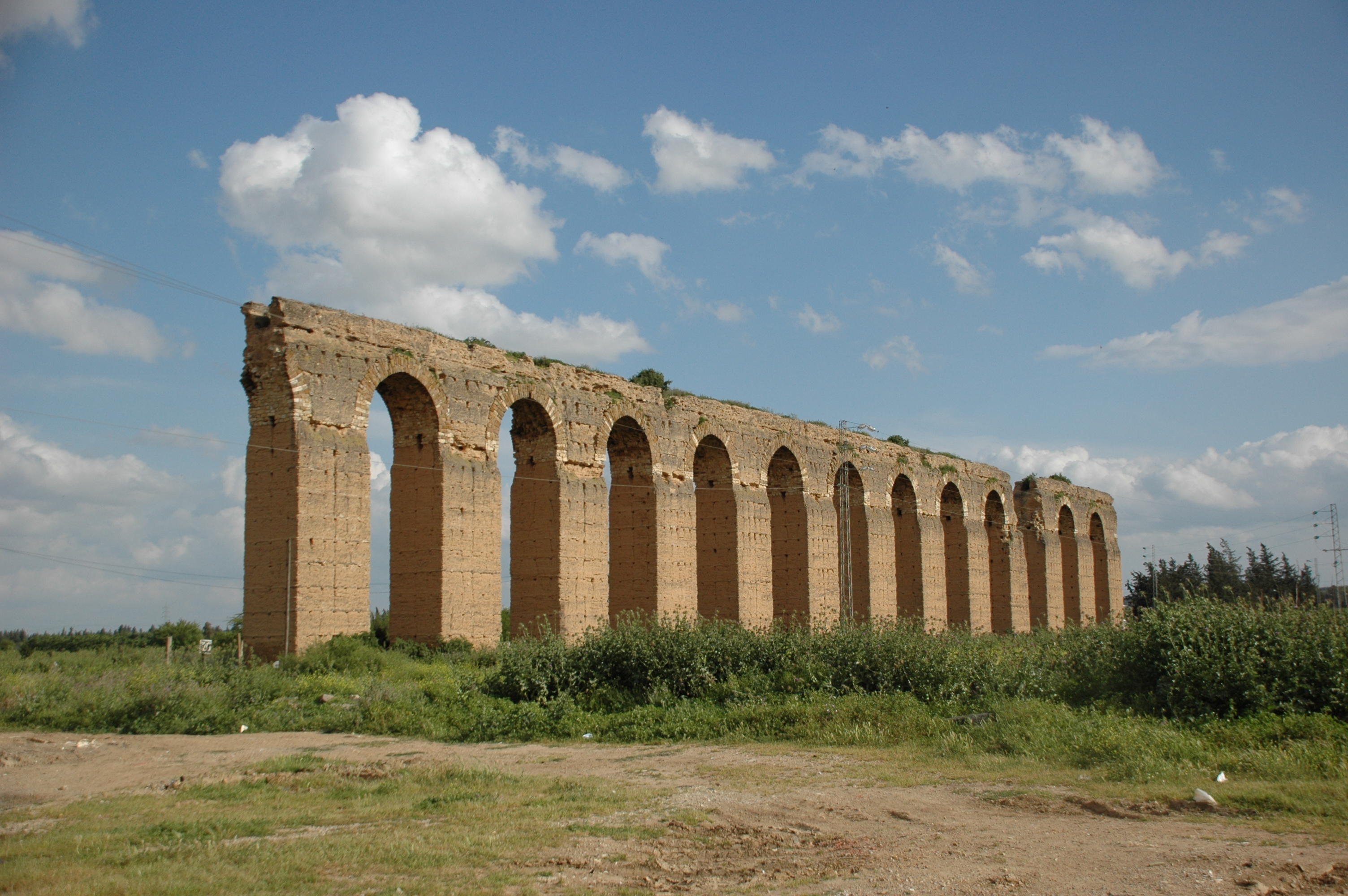 Aqueduct from Zaghouan to Carthage, near Tunis